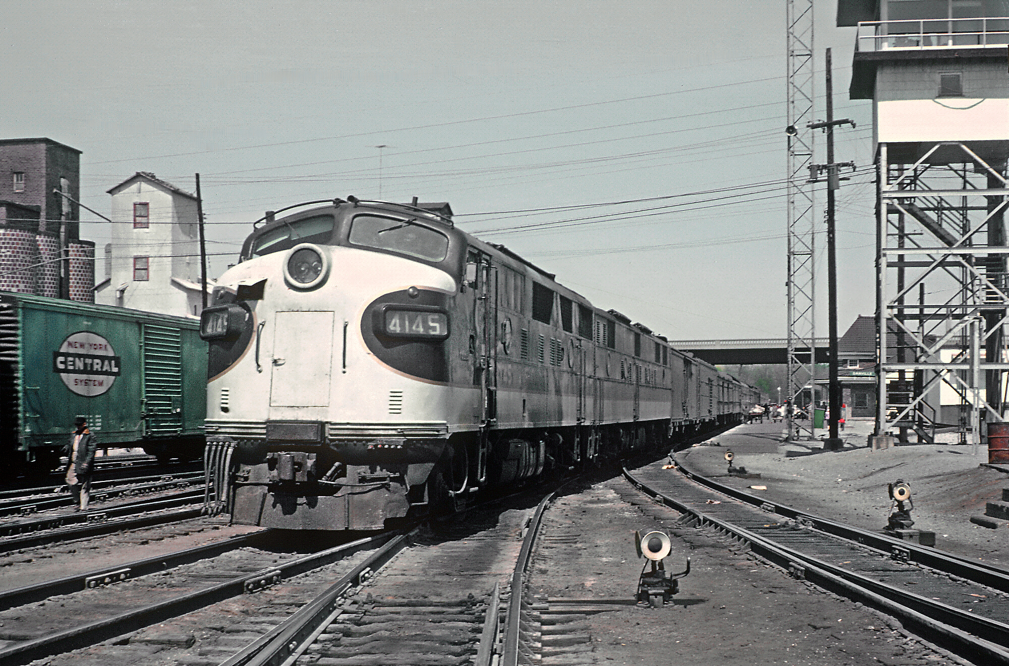 SOU 4145 (F3A and a E7 B-unit) with Train 3, The Royal Palm, stopped at the Danville, KY station on April 11, 1963.